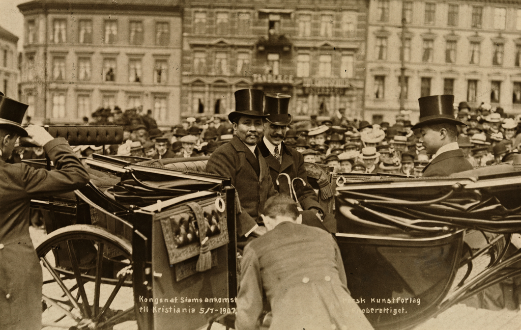 Beskrivelse / Description: Postkort / Postcard. Utgiver / Publisher: Norsk Kunstforlag Dato / Date: 5.juli 1907 Fotograf / Photographer: ukjent / unknown Sted / Place: Sjøgata i Pipervika, (nåværende Rådshusplassen) Oslo. Eier / Owner Institution: Nasjonalbiblioteket / National Library of Norway Lenke / Link: Bildesignatur / Image Number: blds_03811